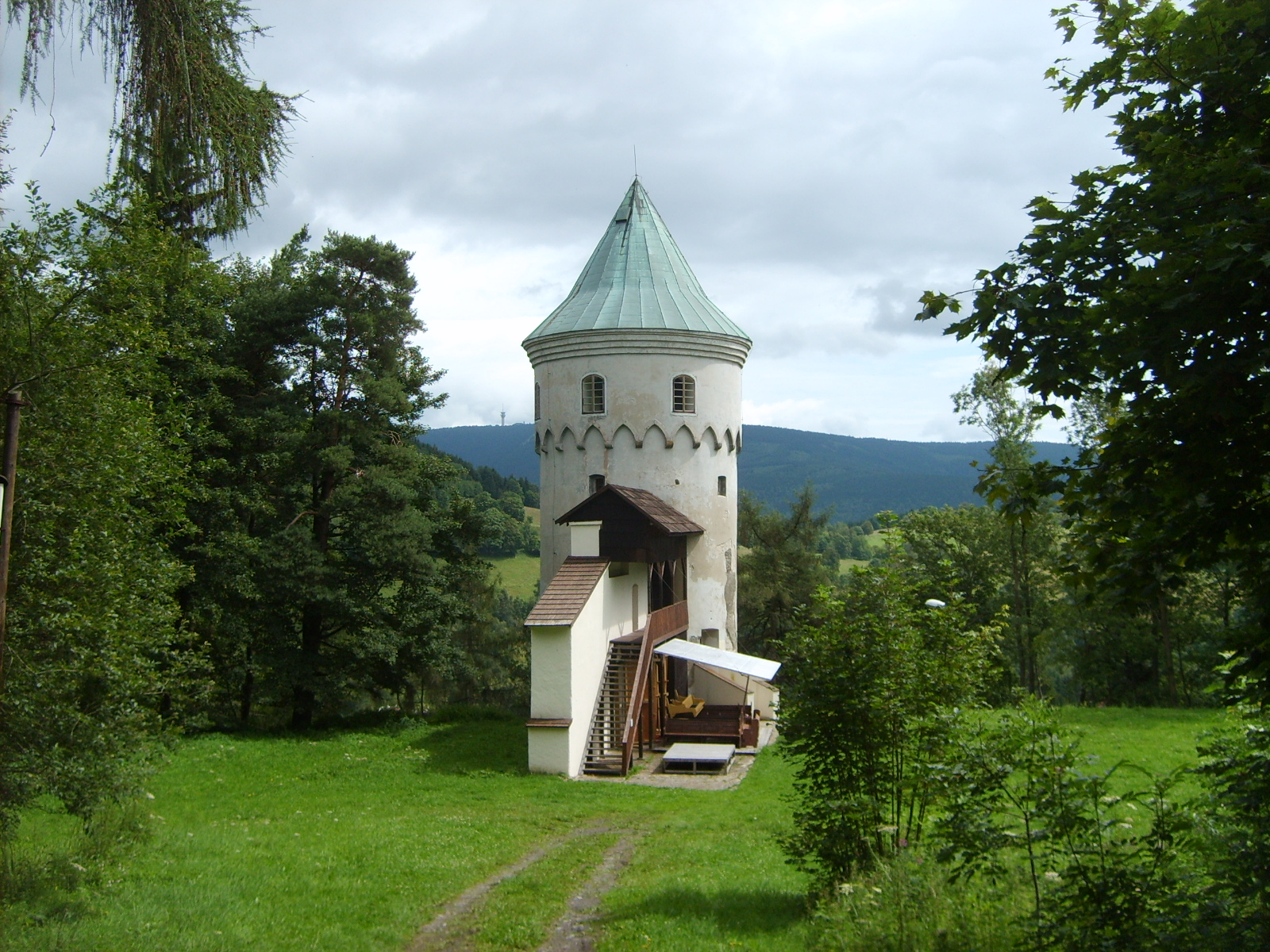 Castle tower upon spa town Jáchymov in Carlsbad county.